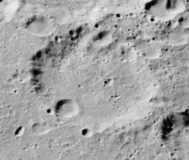 Oblique view of Espin, on the far side of the moon. North is in upper right.